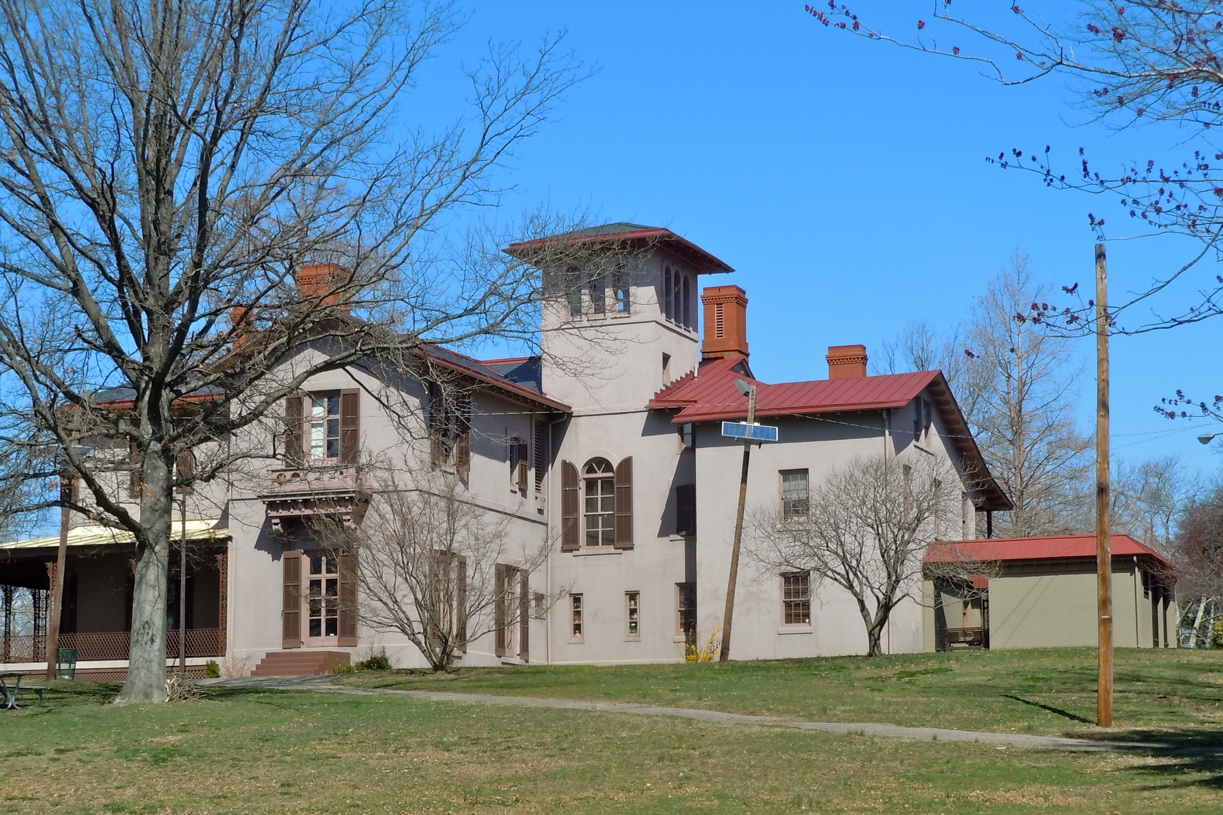 Mansion House on the NRHP since February 6, 1973 in Cadwalader Park, Trenton, New Jersey. House also called Ellarslie and houses the Trenton City Museum, which has traveling art exhibits and a permanent collection of Trenton Pottery.